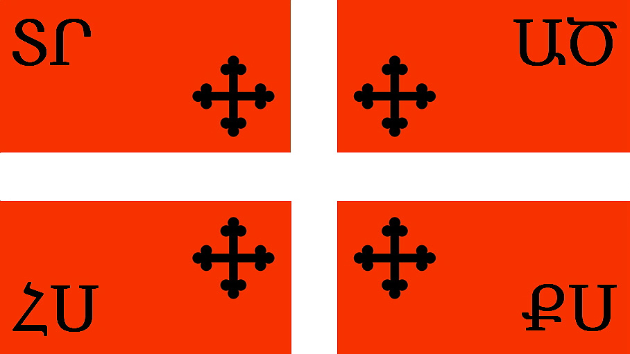 Royal Standard of the Principality of Khachen (Kingdom of Artsakh, Armenia) during the reign of Grand Prince Asan Jalal Vahtangian (1214-1261). At the center are the flag-wide “senior” white (silver) cross of St. John the Baptist and four “junior” crosses of St. John—symbols also used in the Armenian Kingdom of Cilicia, Khachen’s ally state. The four traditional Armenian ecclesial abbreviations point to the words Jesus, Christ, Lord and God. The flag uses an intense shade of orange known in Armenian as Tzirani (literary—“color of apricot”) that symbolized nobility (RGB model: Red-250.Green-50.Blue-0). Reconstruction by ARACS/Gandzasar.com, 2010. USED LITERATURE: Thomas Woodcock. The Oxford Guide to Heraldry. Oxford University Press, USA; 2nd edition (December 6, 2001) Heraldic Crests: A Pictorial Archive of 4,424 Designs for Artists and Craftspeople (Dover Pictorial Archive Series). Dover Publications (September 14, 1993) Catherine Daly-Weir (Author), Jeff Crosby (Illustrator). Coat of Arms. Grosset & Dunlap (March 6, 2000) Michael McCarthy. A Manual of Ecclesiastical Heraldry: Catholic, Anglican, Lutheran, Presbyterian and Orthodox. Thylacine Press (January 1, 2005) Razmik Panossian. The Armenians: From Kings and Priests to Merchants and Commissars. Columbia University Press (September 4, 2006) Richard G. Hovannisian (Editor), Simon Payaslian (Editor). Armenian Cilicia (Ucla Armenian History and Cutlure; Hisetoric Armenian Cities and Provinces). Mazda Publishers (July 15, 2008) Esayi Hasan Jalaeants (Author), George A. Bournoutian (Translator). Brief History of the Aghuank Region: (Patmut'iwn Hamarot Aghuanits Erkri) a History of Karabagh and Ganje From 1702-1723 (Armenian Studies Series). Mazda Publishers (July 2009) ________________________________________________________________________________________________________________